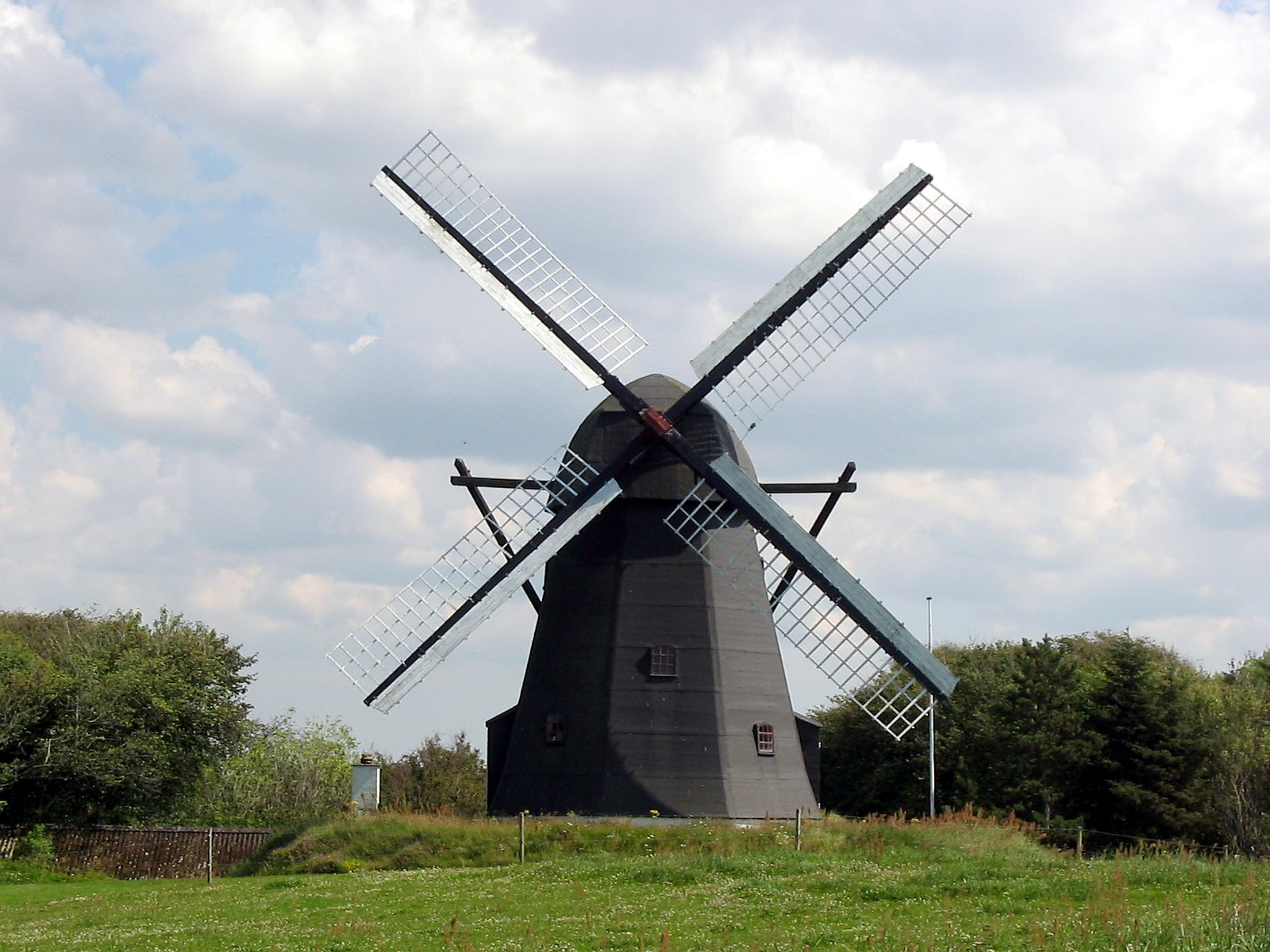 windmill, Lønstrup → Vendsyssel → Jutland → Denmark